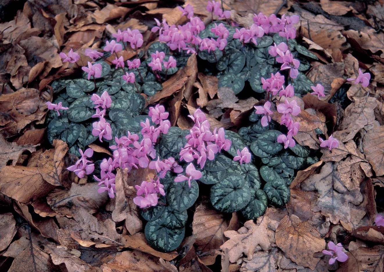 Cyclamen coum (scanned from a classical photo)